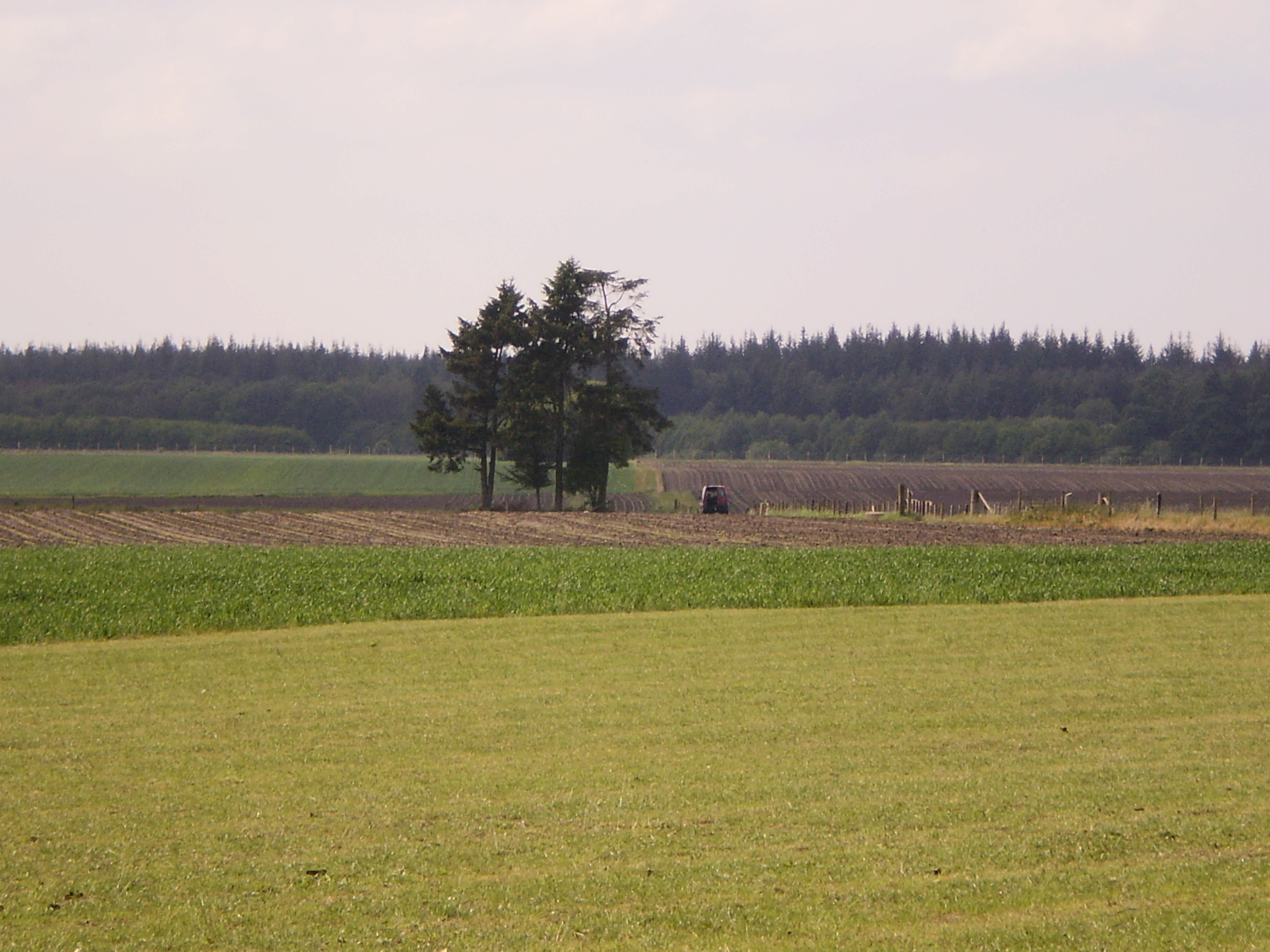 Agricultural enclave at Assel